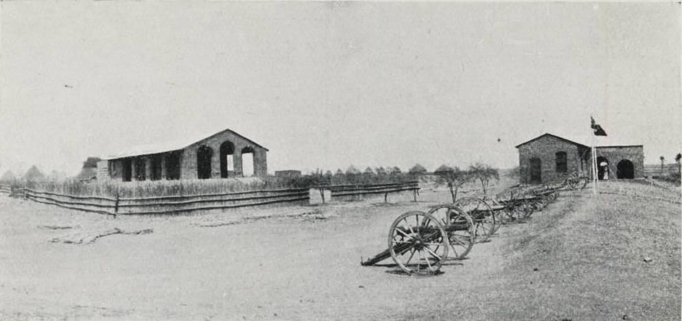 The governor's house in Fashoda - Kodok, 1906 (South) Sudan, with a line of cannons in front of the main building.